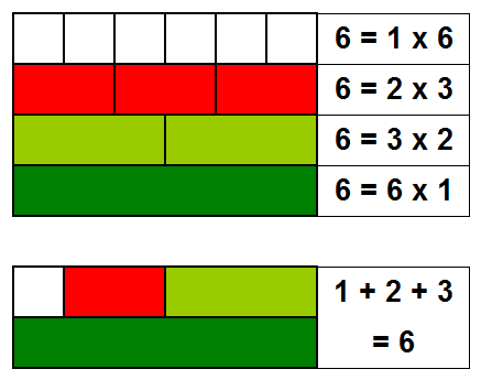 Showing, through Cuisenaire rods, that 6 is a perfect number.